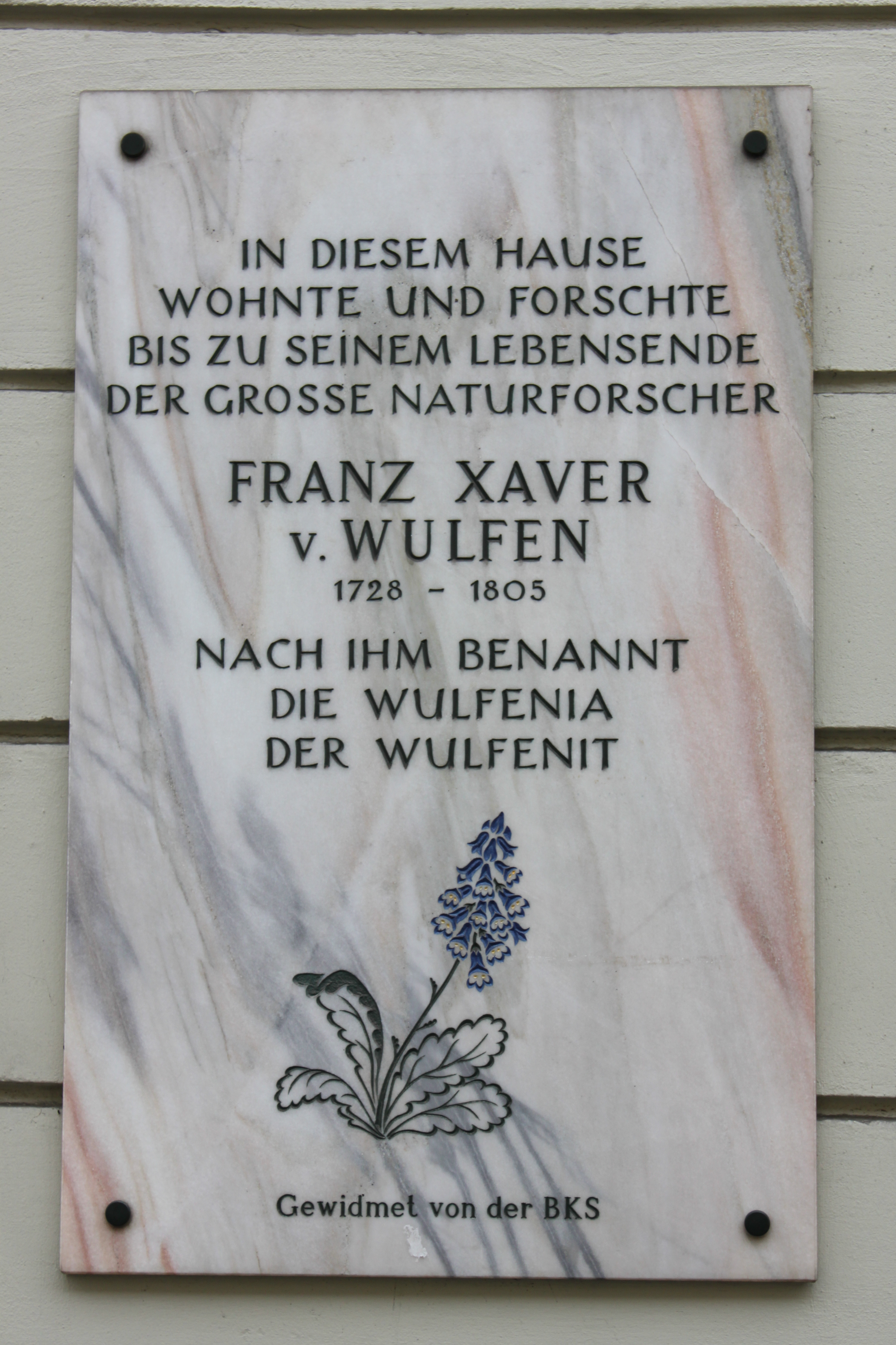 "In this house lived and conducted research until his living end of the great naturalist Franz Xaver von Wulfen Named after him the Wuffenia, the Wuffenit. Donated by the BKS", Klagenfurt